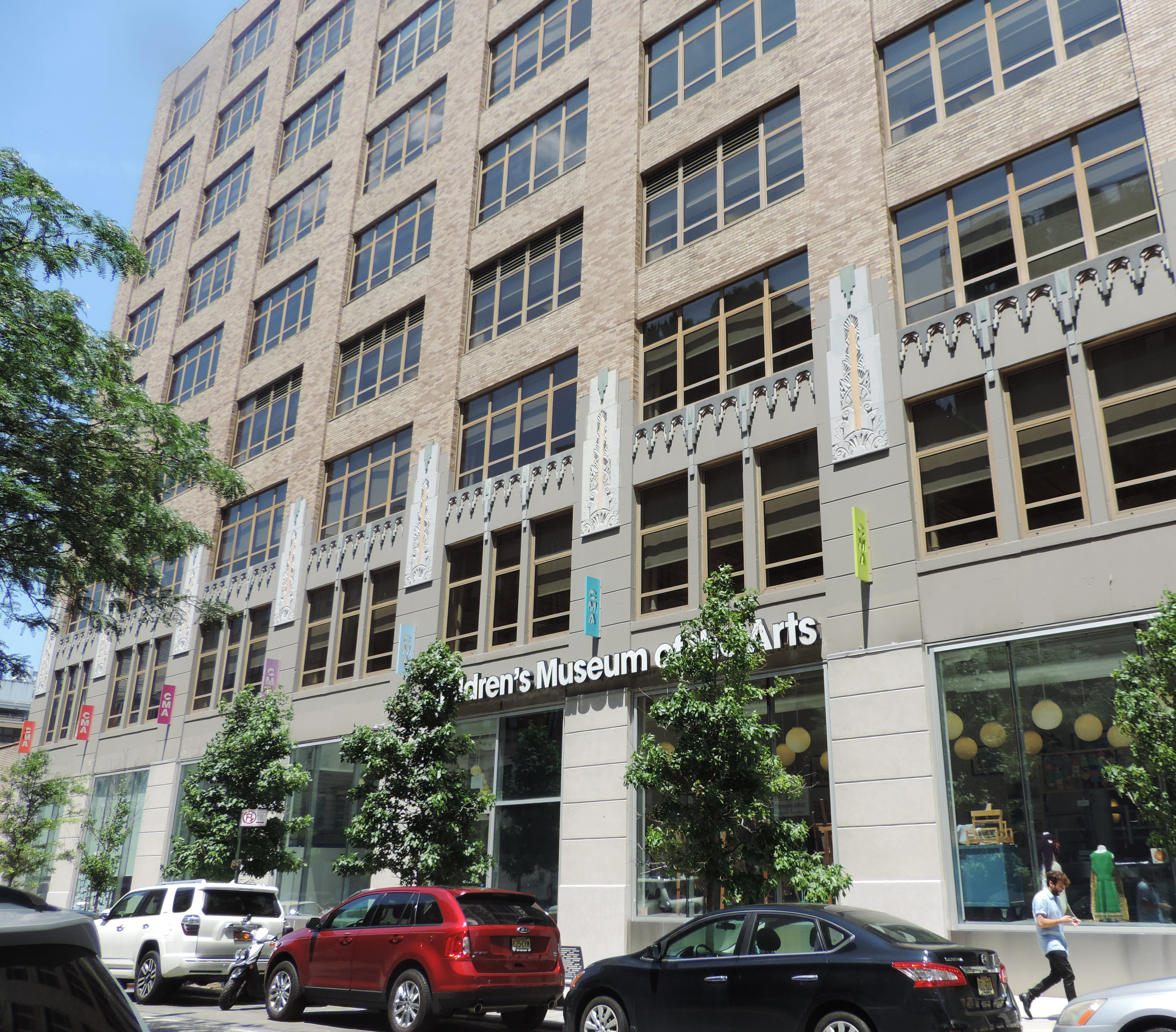 Looking northwest across Charlton Street at Childrens Museum of Arts on a sunny midday.